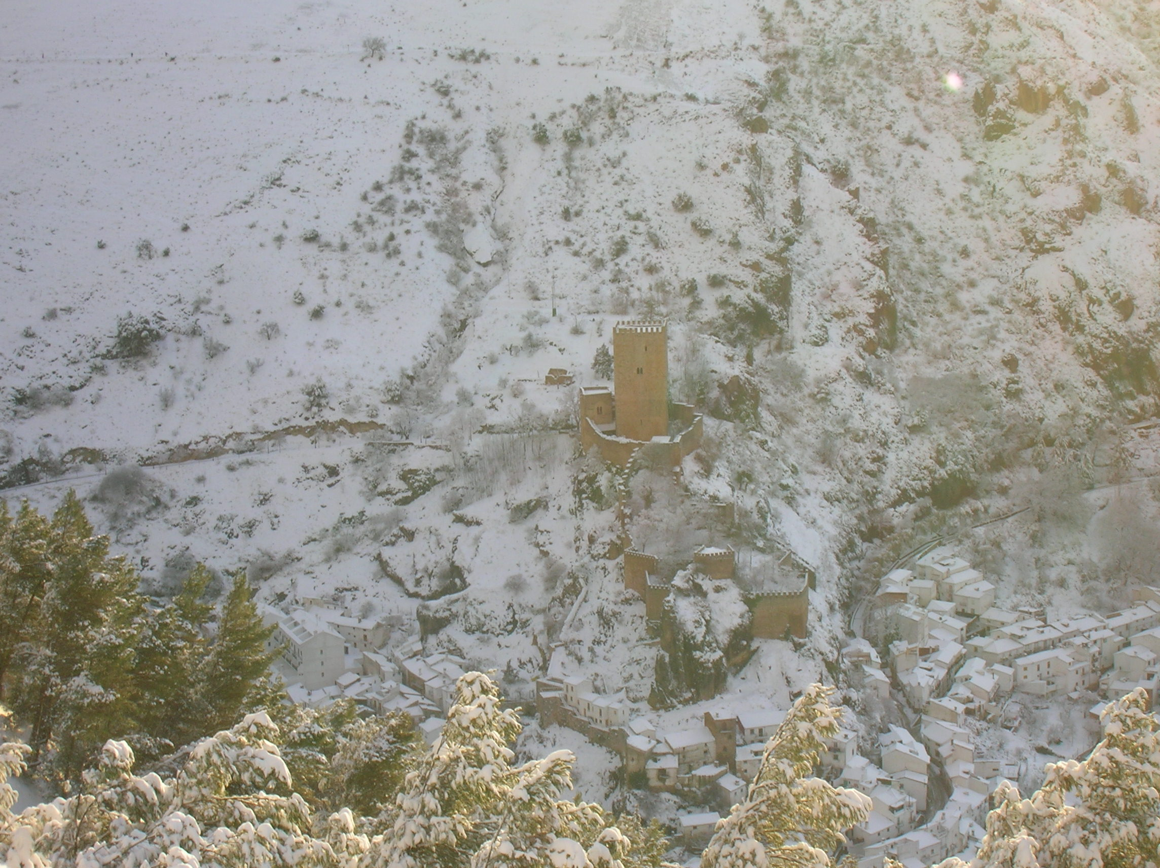 Yedra's castle snowed